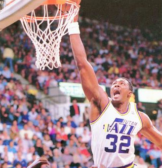 Professional basketball player Karl Malone